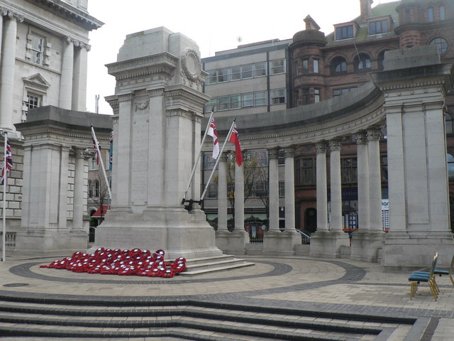 Belfast: the cenotaph At around noon on 11 November, remembrance Sunday, after the wreaths have been laid.